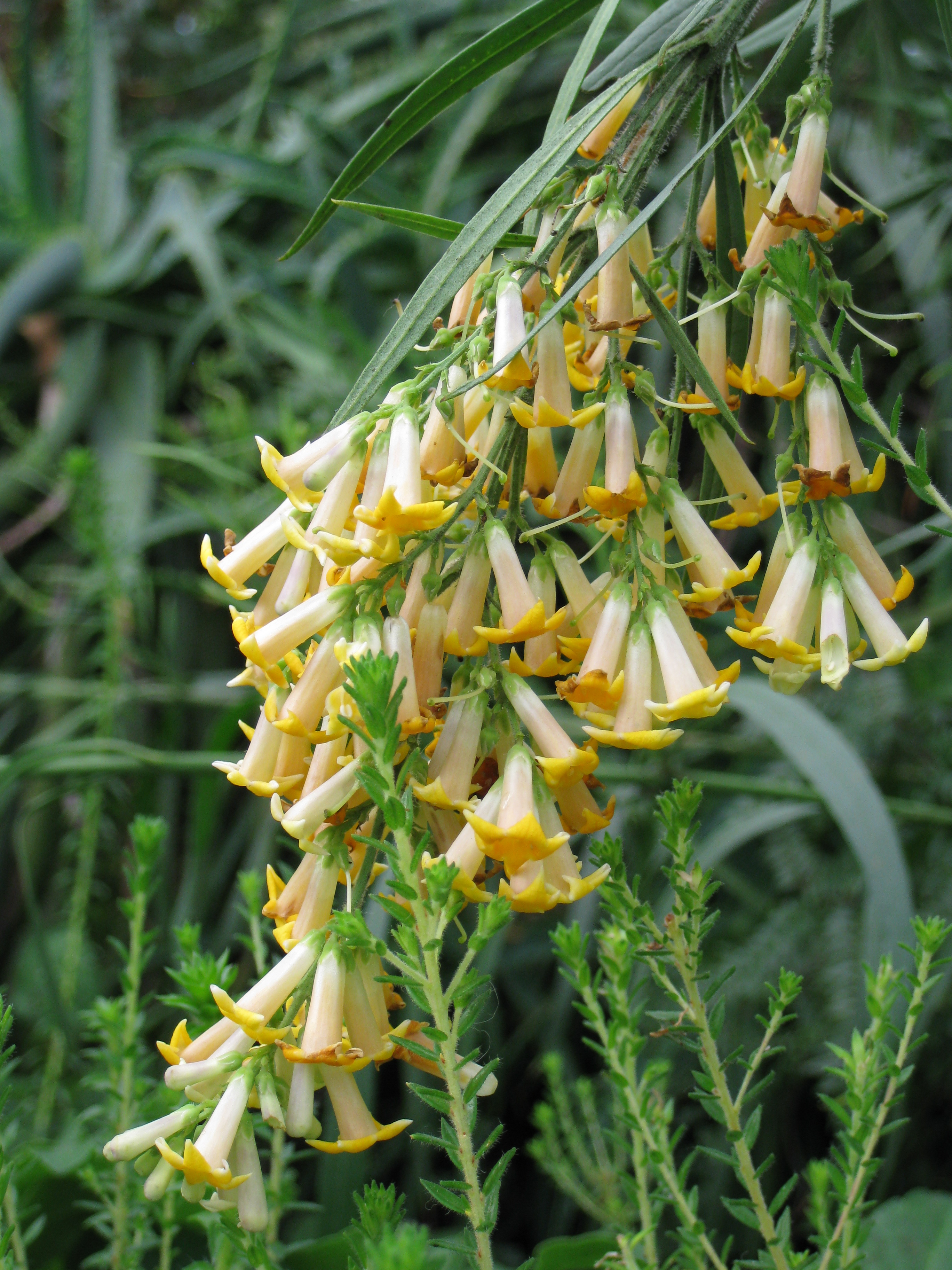 Honey Bells (Freylinia lanceolata) in the Mediterranean Biome at the Eden Project